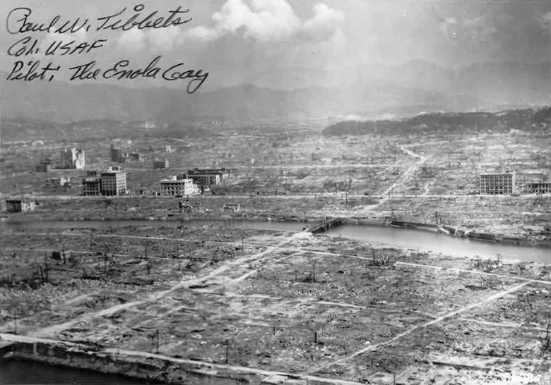 Hiroshima Aftermath, cropped version with writing of Paul Tibbets